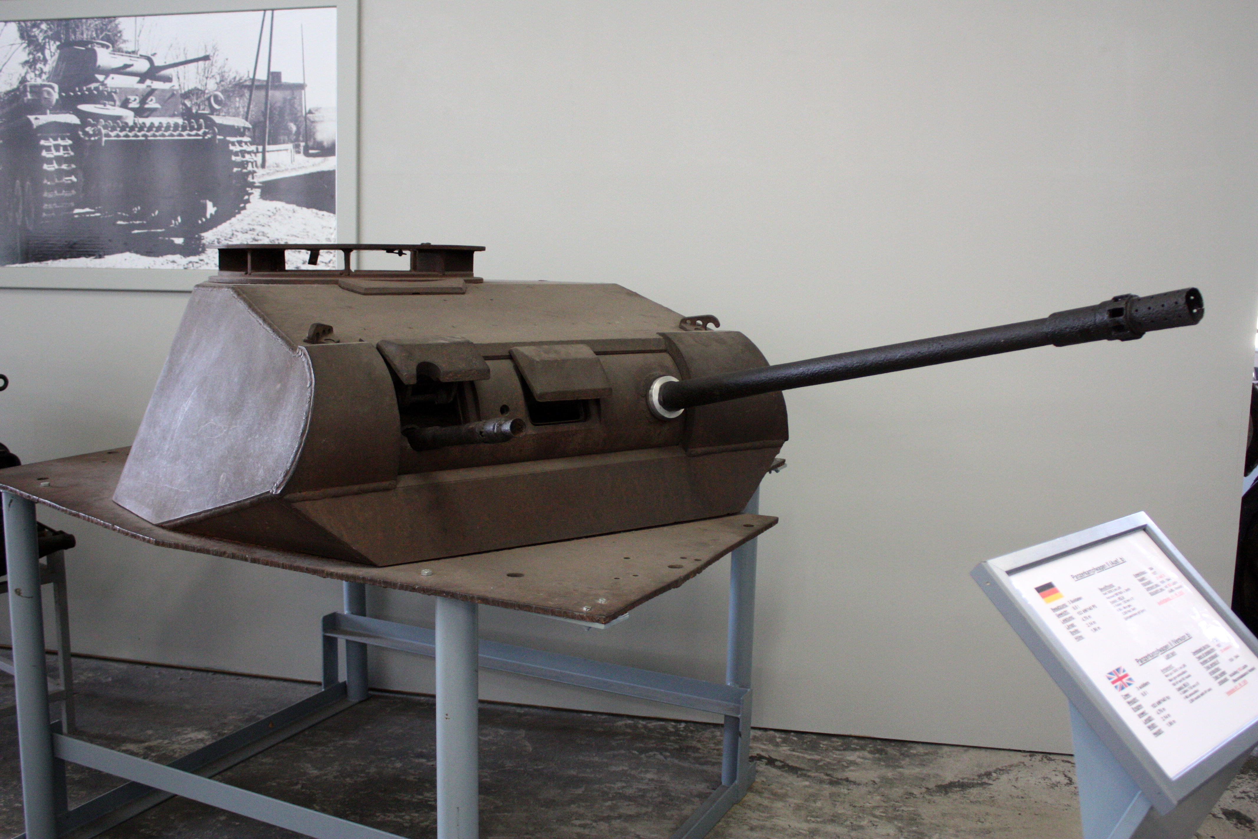 German Tank Museum